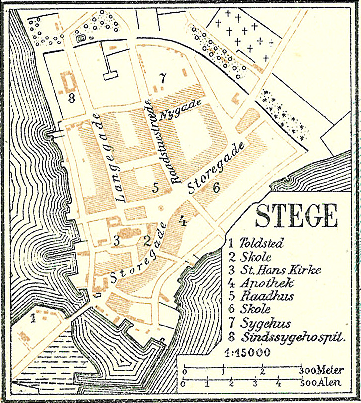 Map of Præstø County in Denmark